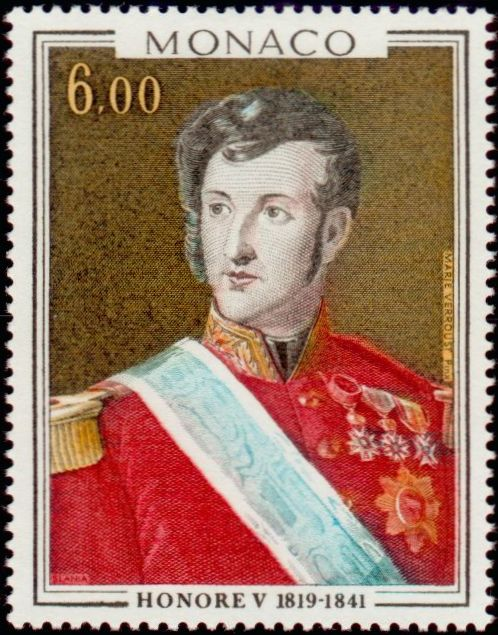 Stamp of Honore V of Monaco